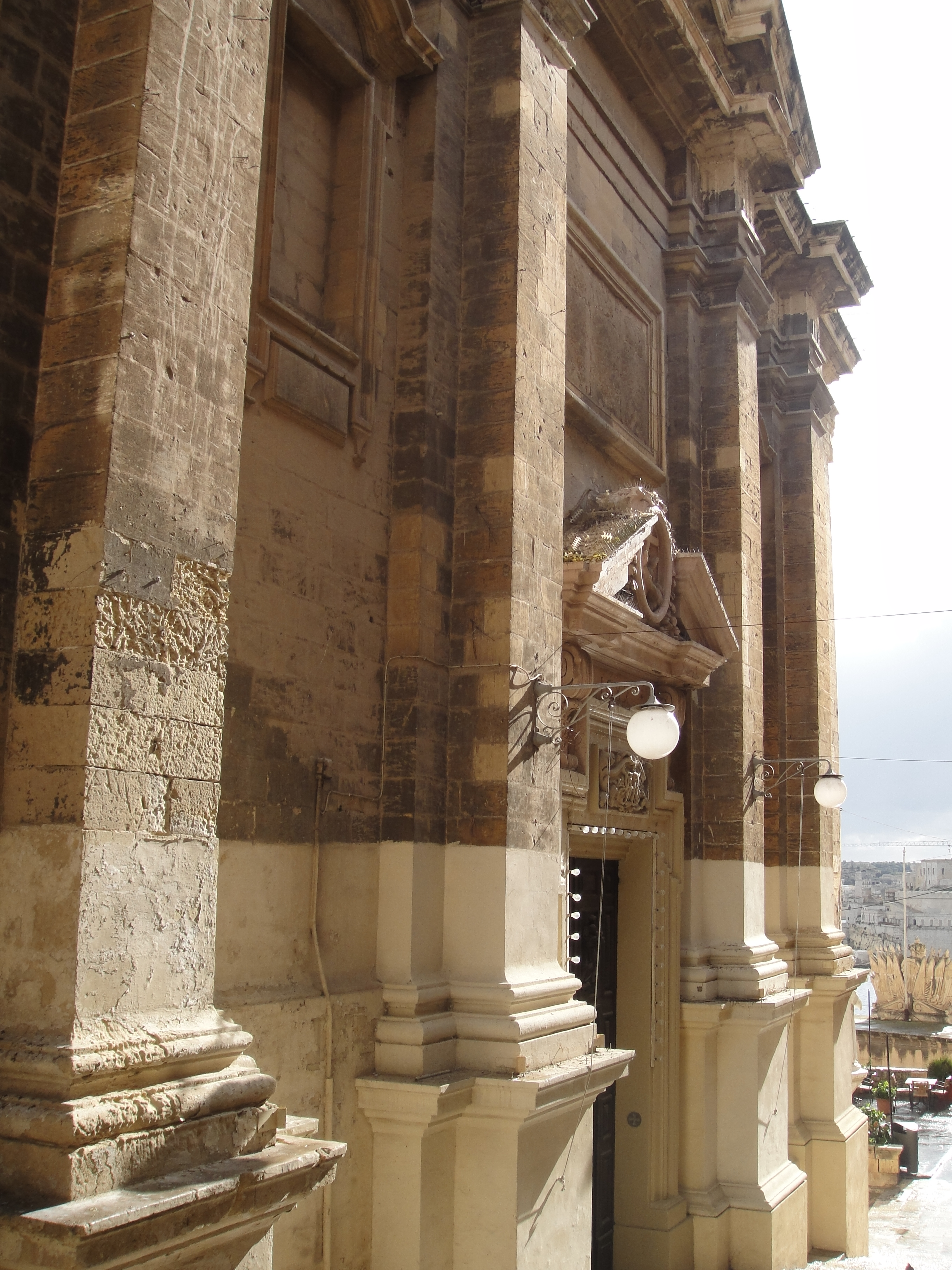 The façade of the church of St Mary of Jesus Valletta Malta.